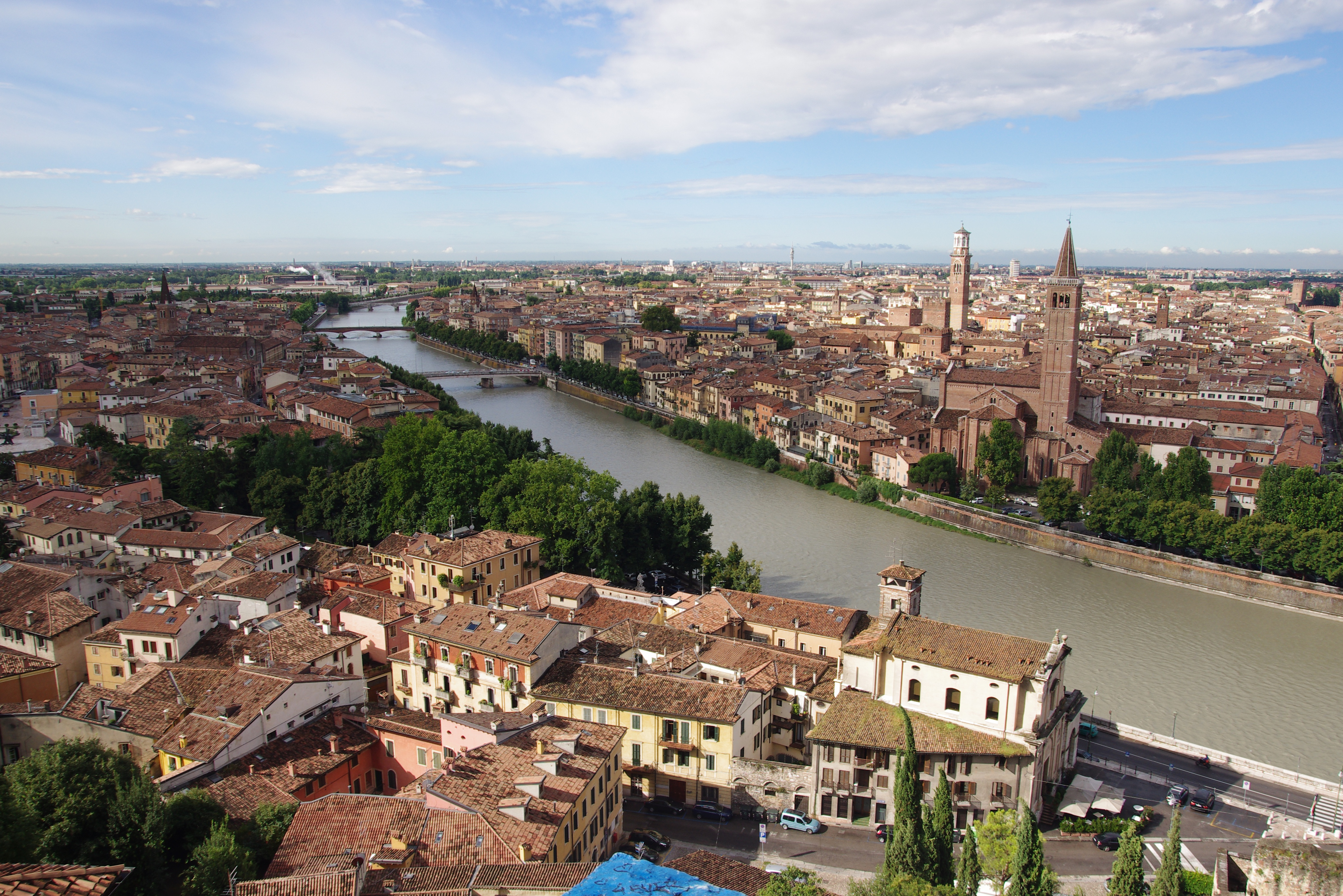 Verona, view from Castel San Pietro